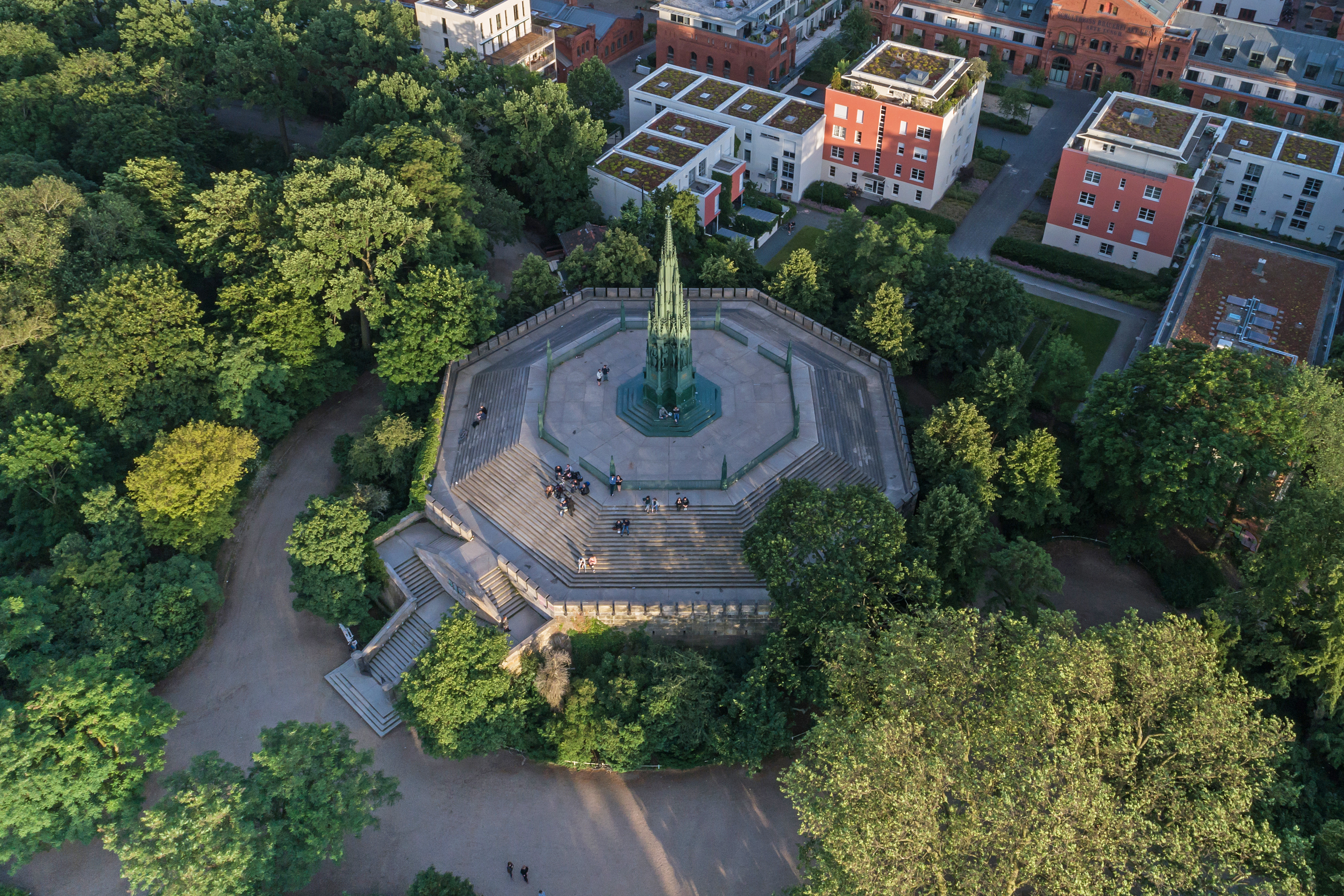 Aerial photo of Viktoriapark Kreuzberg in Berlin (Germany)